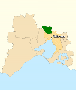 This image incorporates data that is: © Commonwealth of Australia (Australian Electoral Commission) 2009 Division of Calwell 2010